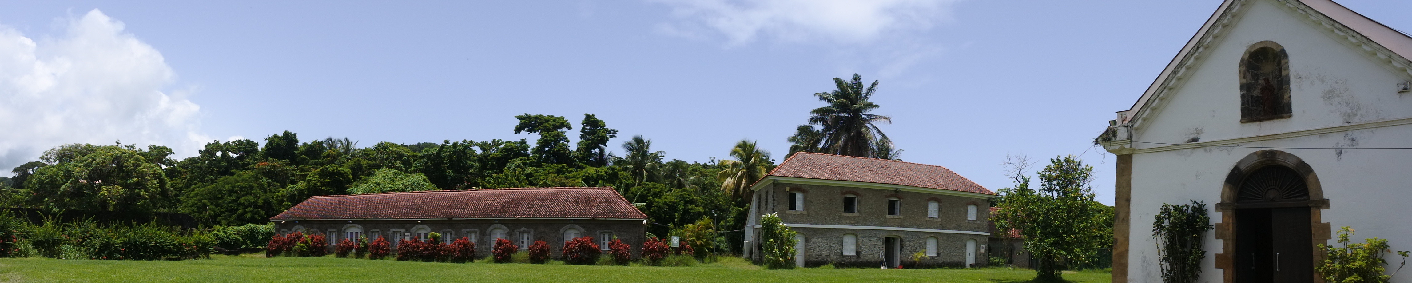 Martinique - Building classified as a historical monument - Domaine Fonds Saint-Jacques in 2017 Father Labat's sugar factory, 17th century, warehouse, monastery, chapel